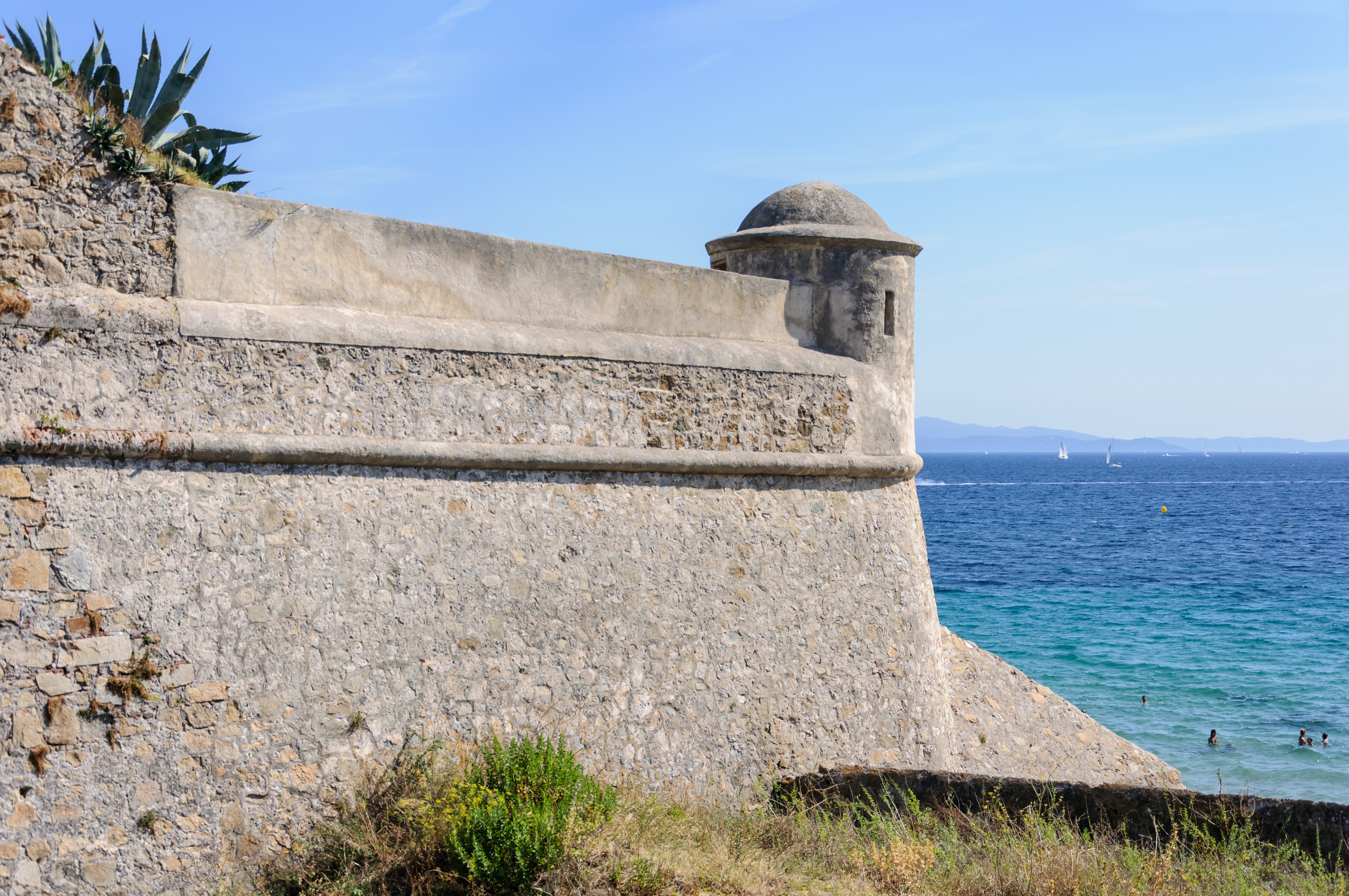 The citadel of Ajaccio, Corsica, France: Saint-Luc half-bastion and its bartizan. .